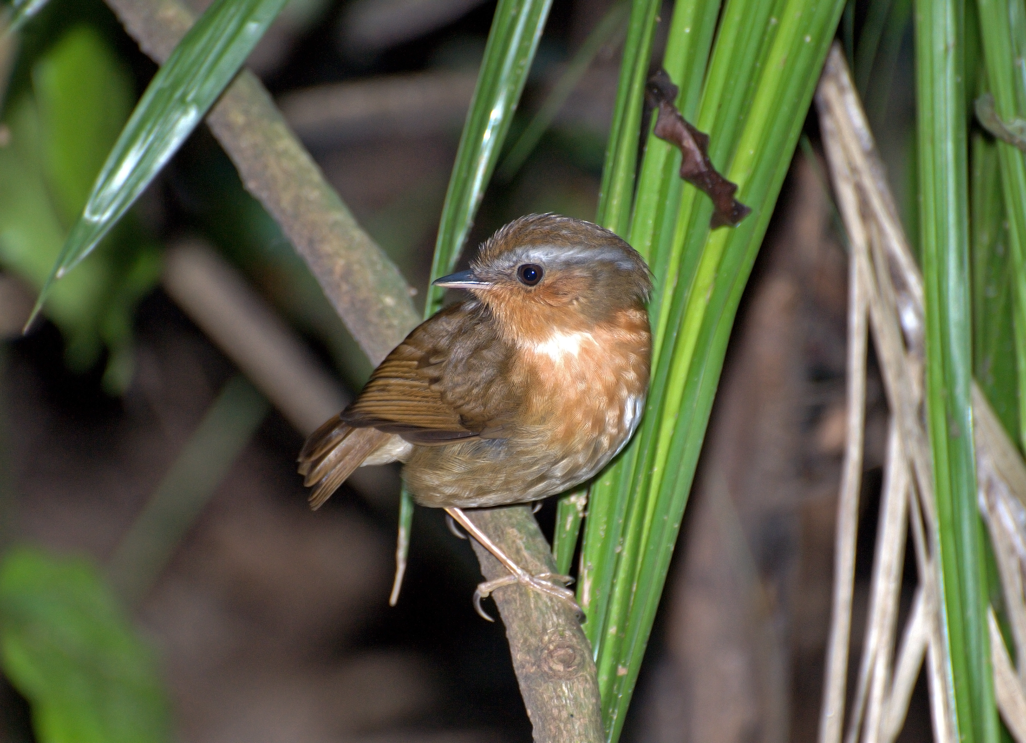 A Rufous Gnateater in Parque Estadual da Serra da Cantareira, São Paulo, Brazil.